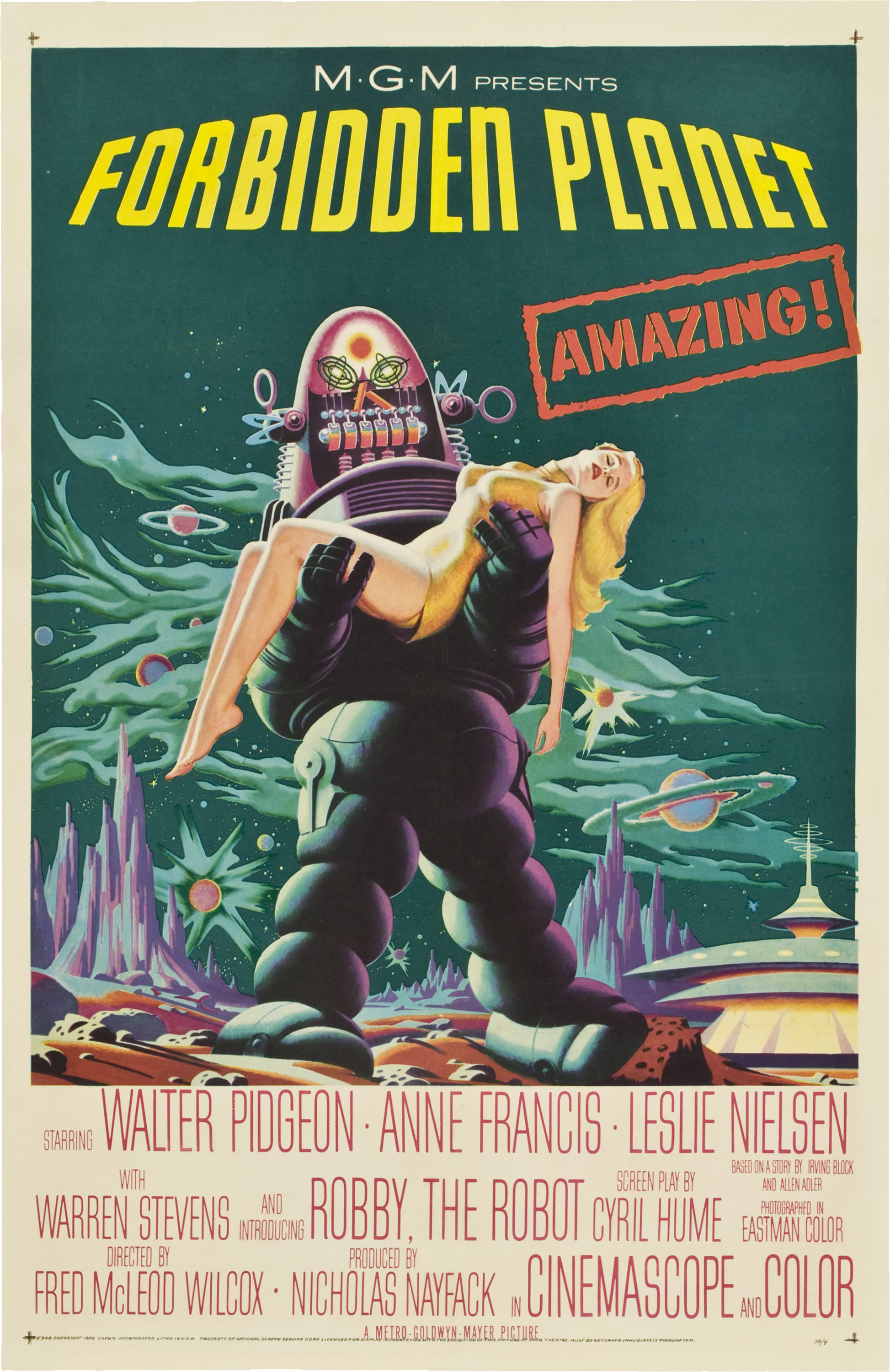 Theatrical poster for the film Forbidden Planet featuring Robby the Robot.